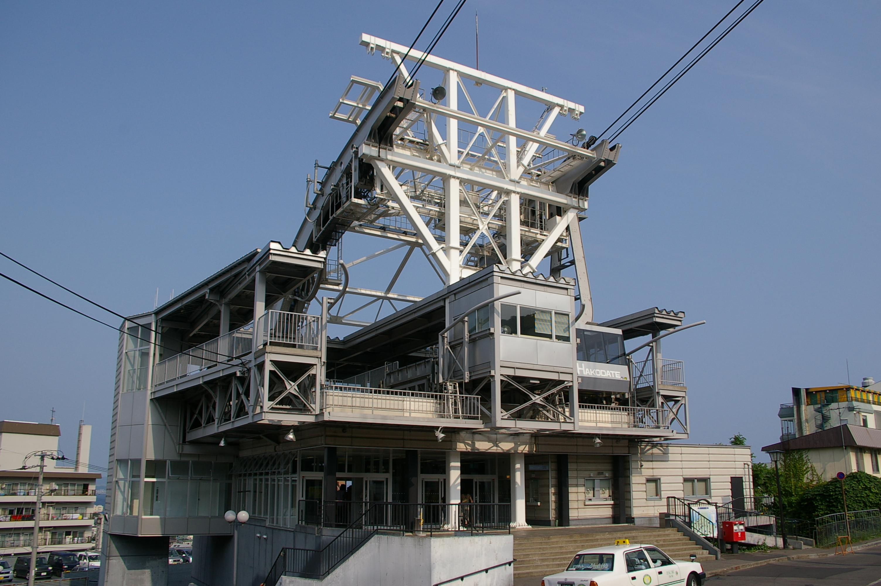 Photograph of the base station of Mt. Hakodate Ropeway in Hakodate, Hokkaido, Japan.